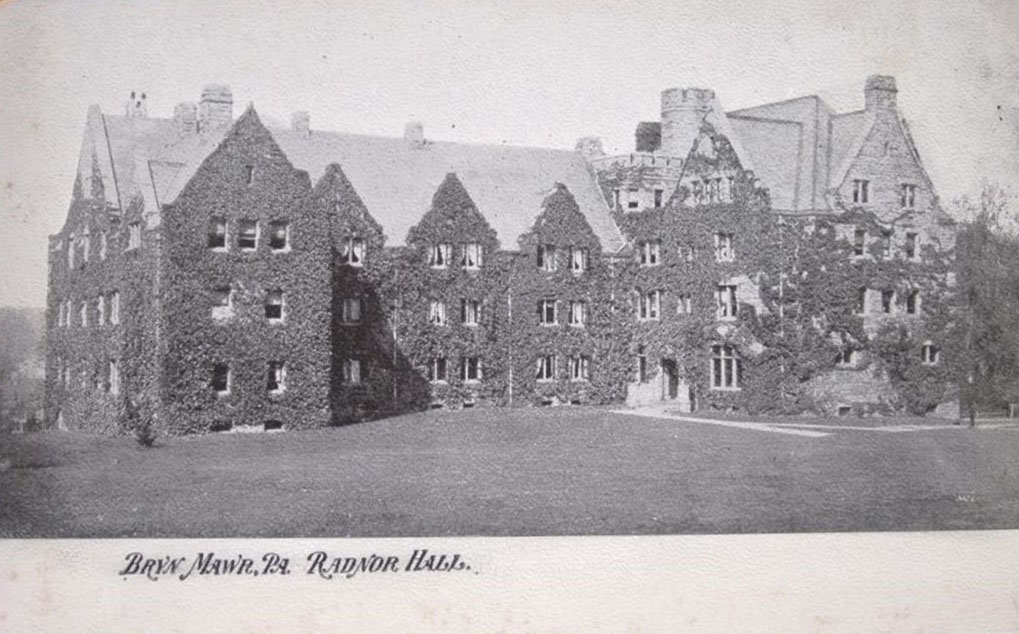 Postcard: "Bryn Mawr, Pa. Radnor Hall." circa-1905. Radnor Hall (1887, Cope and Stewardson, architects), is a dormitory at Bryn Mawr College.